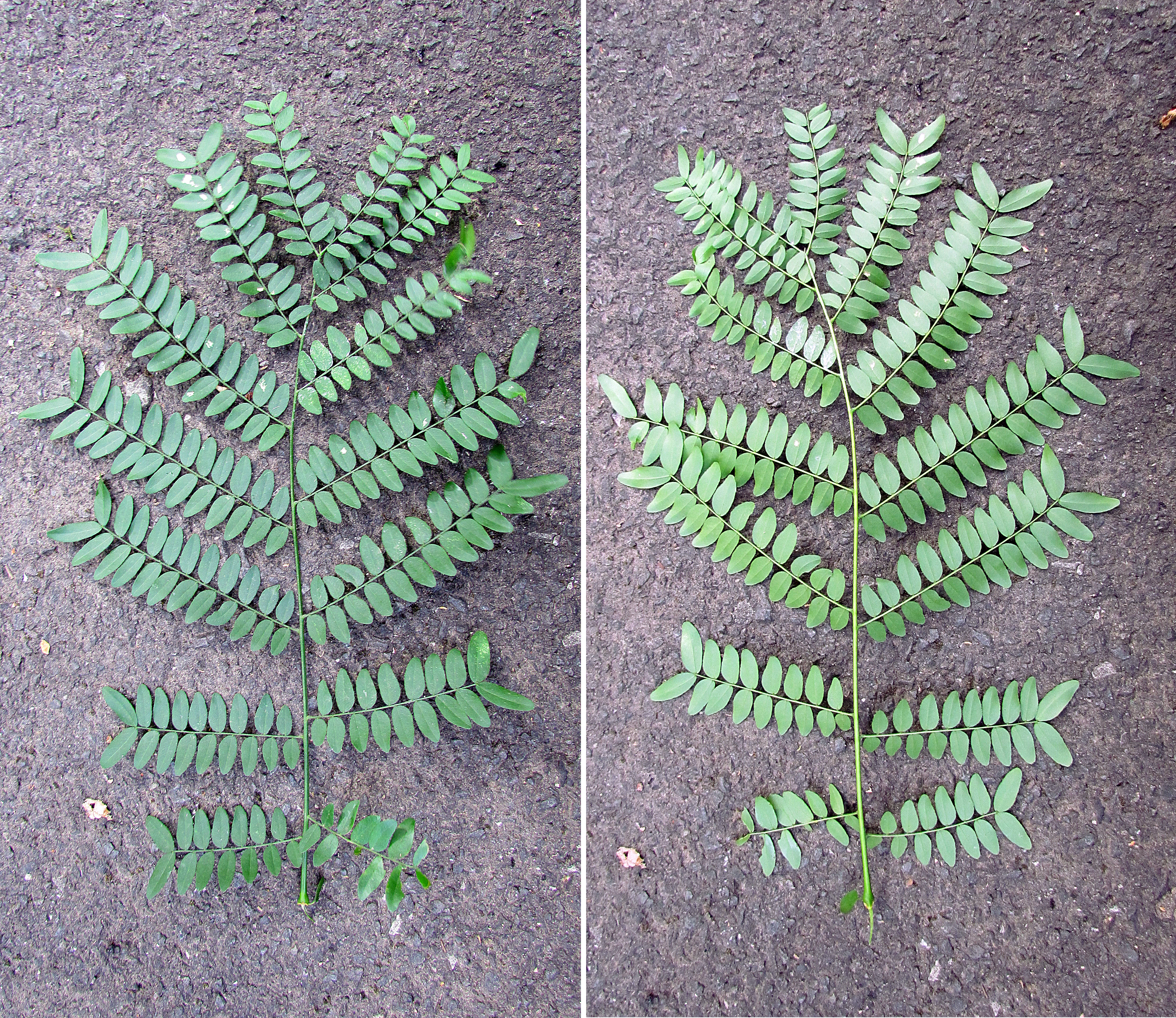 Gleditsia triacanthos leaf